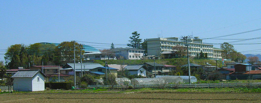 Kakuda Senior High School of Miyagi Prefecture. Kakuda, Miyagi prefecture, Japan. Northward.